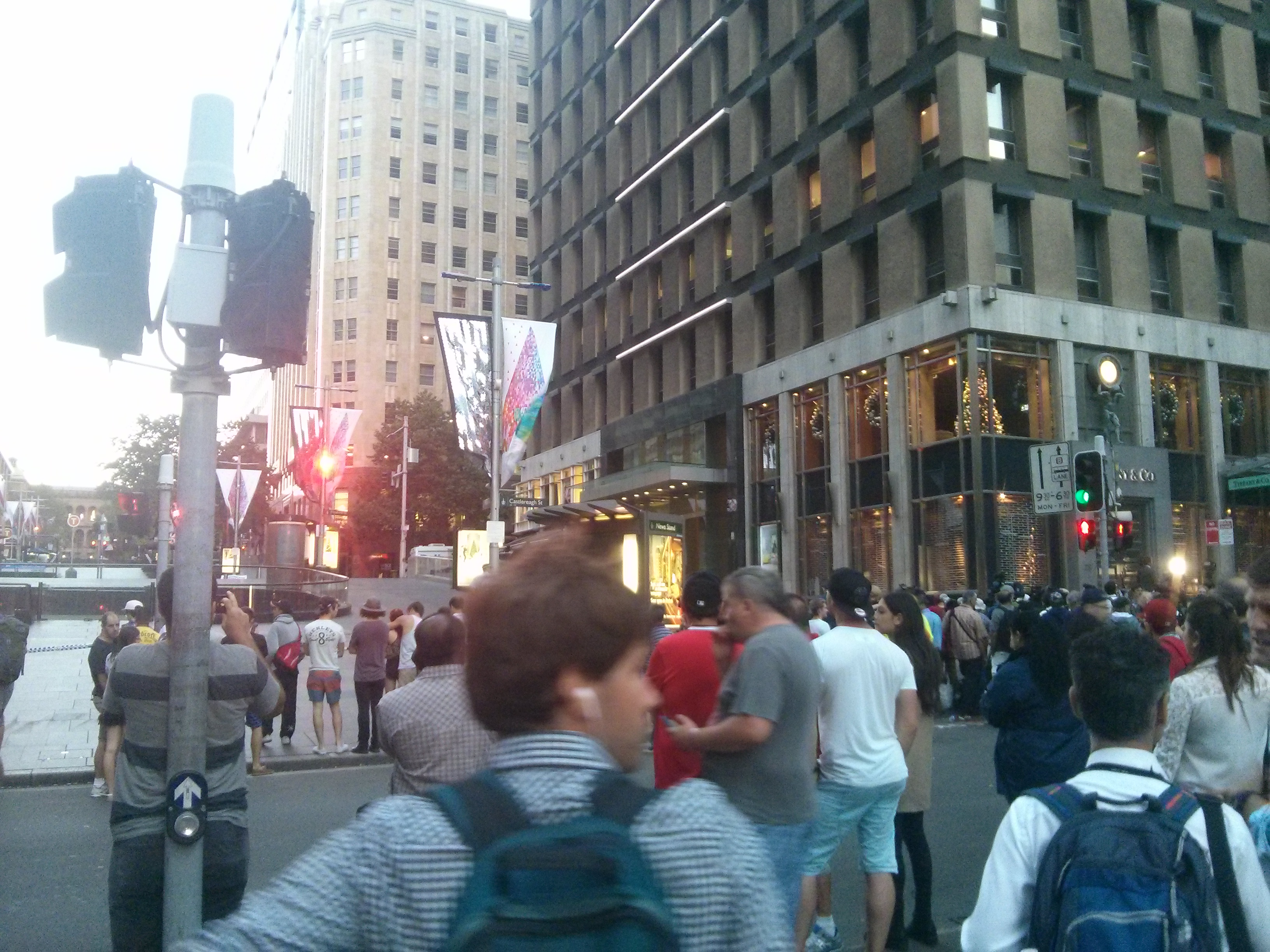 Crowds gather in Martin Place during the Sydney Hostage Crisis